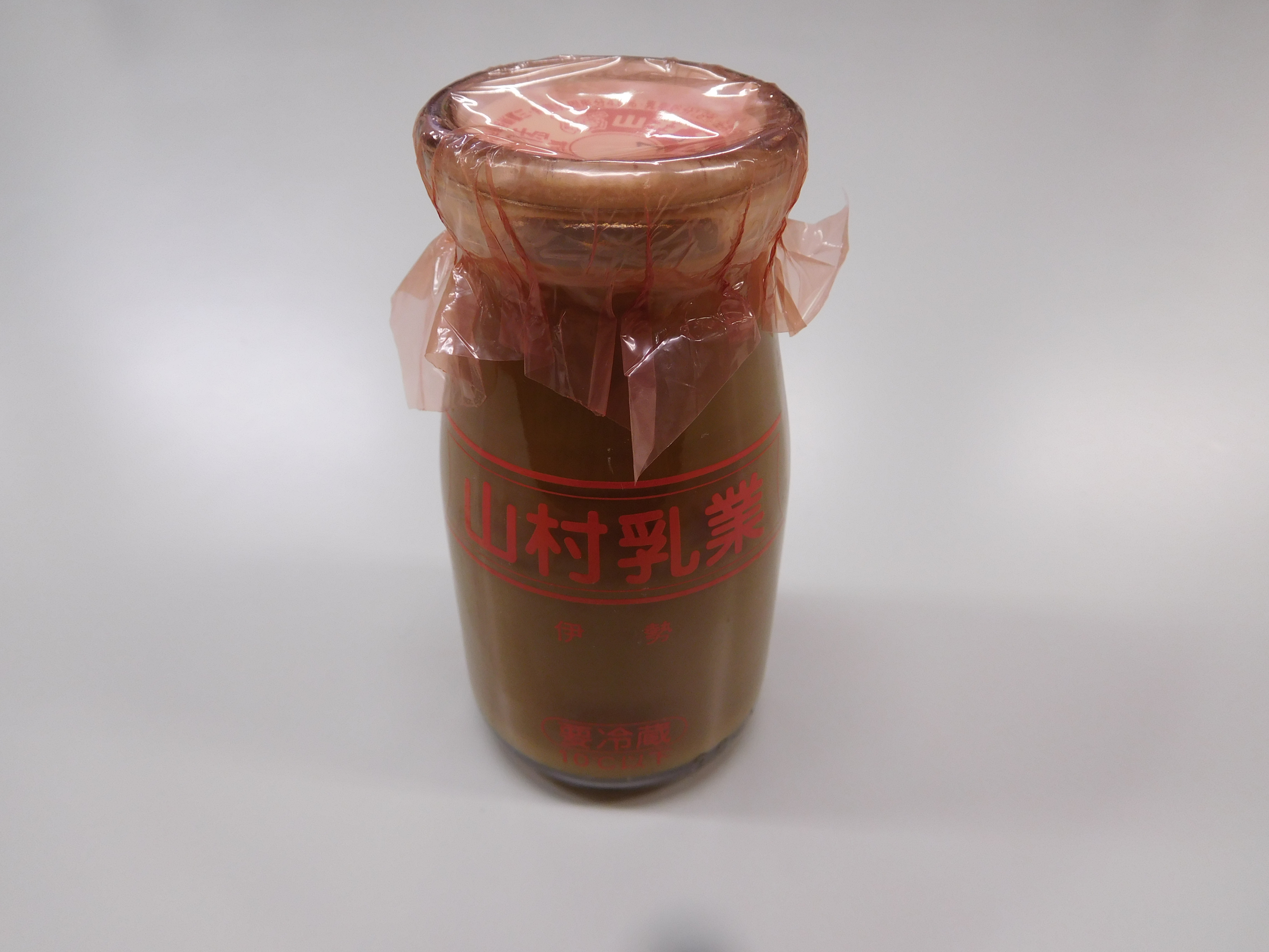 Yamamura Coffee Milk, made by Yamamura Milk, milk maker of Ise, Mie, Japan.